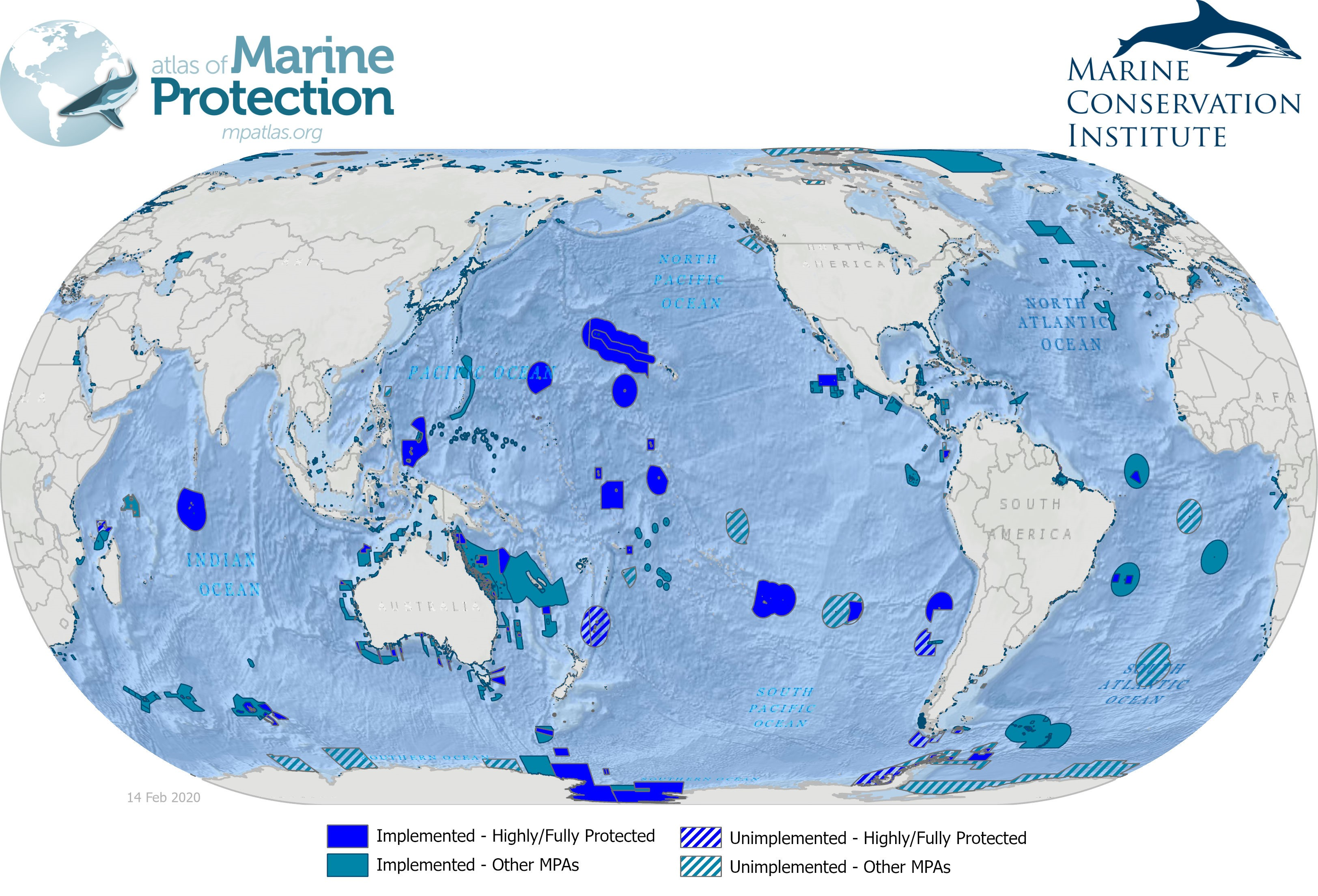 MPAs globally in 2020. Data from